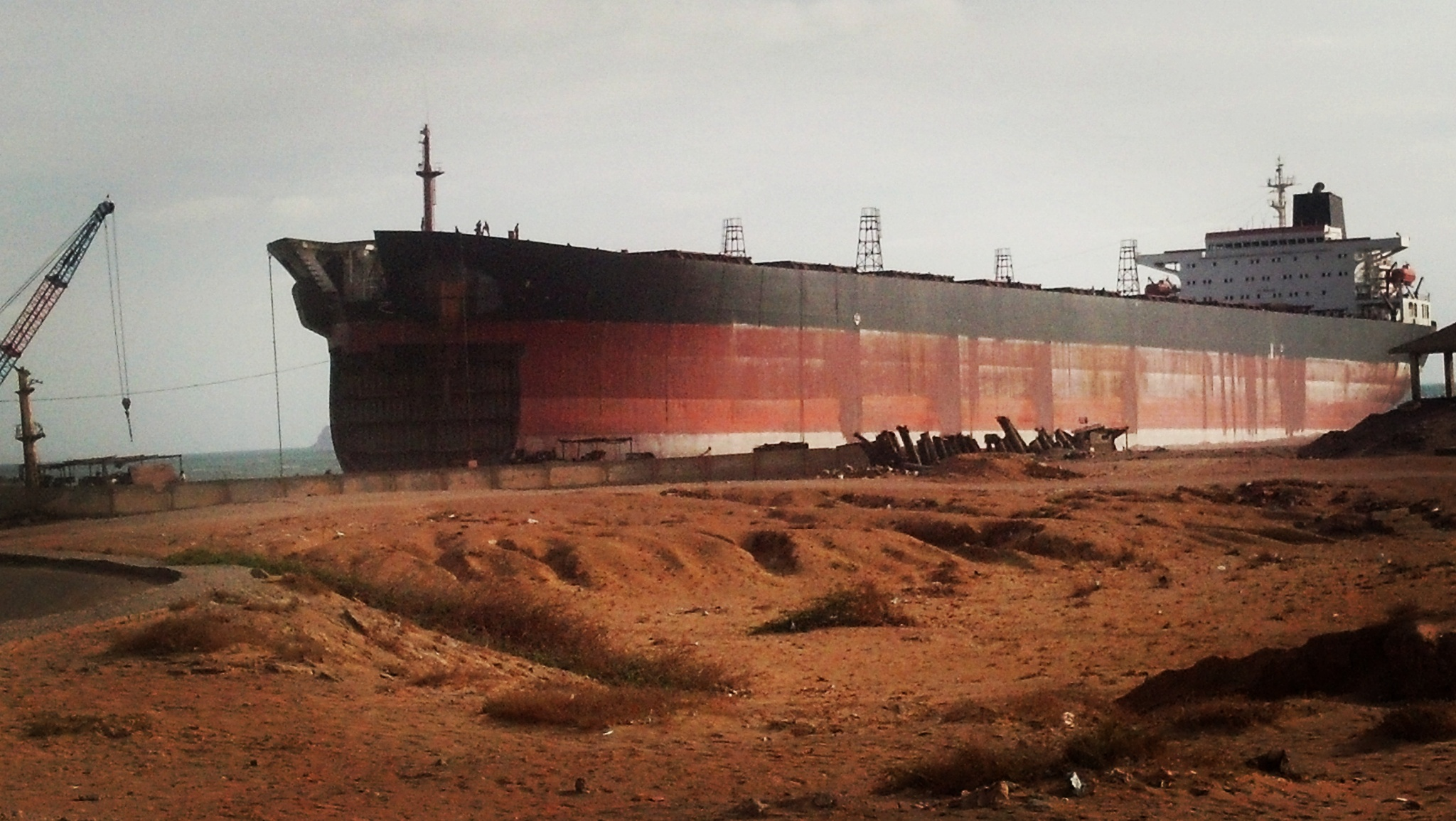 ship breaking as seen here with the bulk carrier Martha of 1994 in Gadani Beach, Baluchistan; ships are being scrapped and the material is recycled.